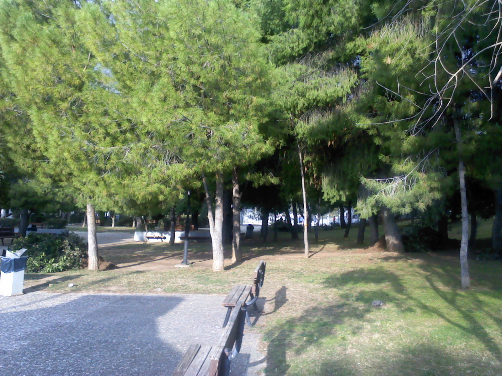 Park Ipapantis Agia Filothei